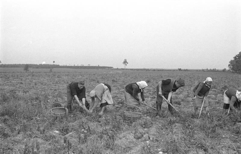 Warsaw during World War II